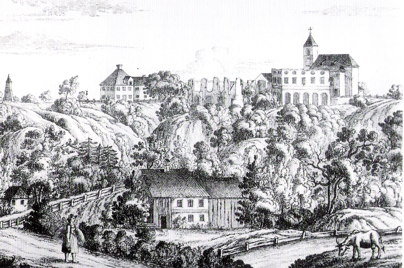 Harlaching Castle (München) after fire 1796, in the background church St. Anna